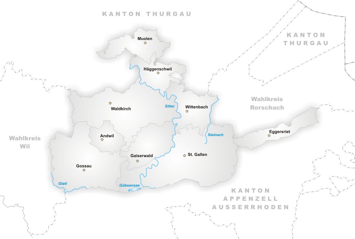 Municipalities of District St. Gallen